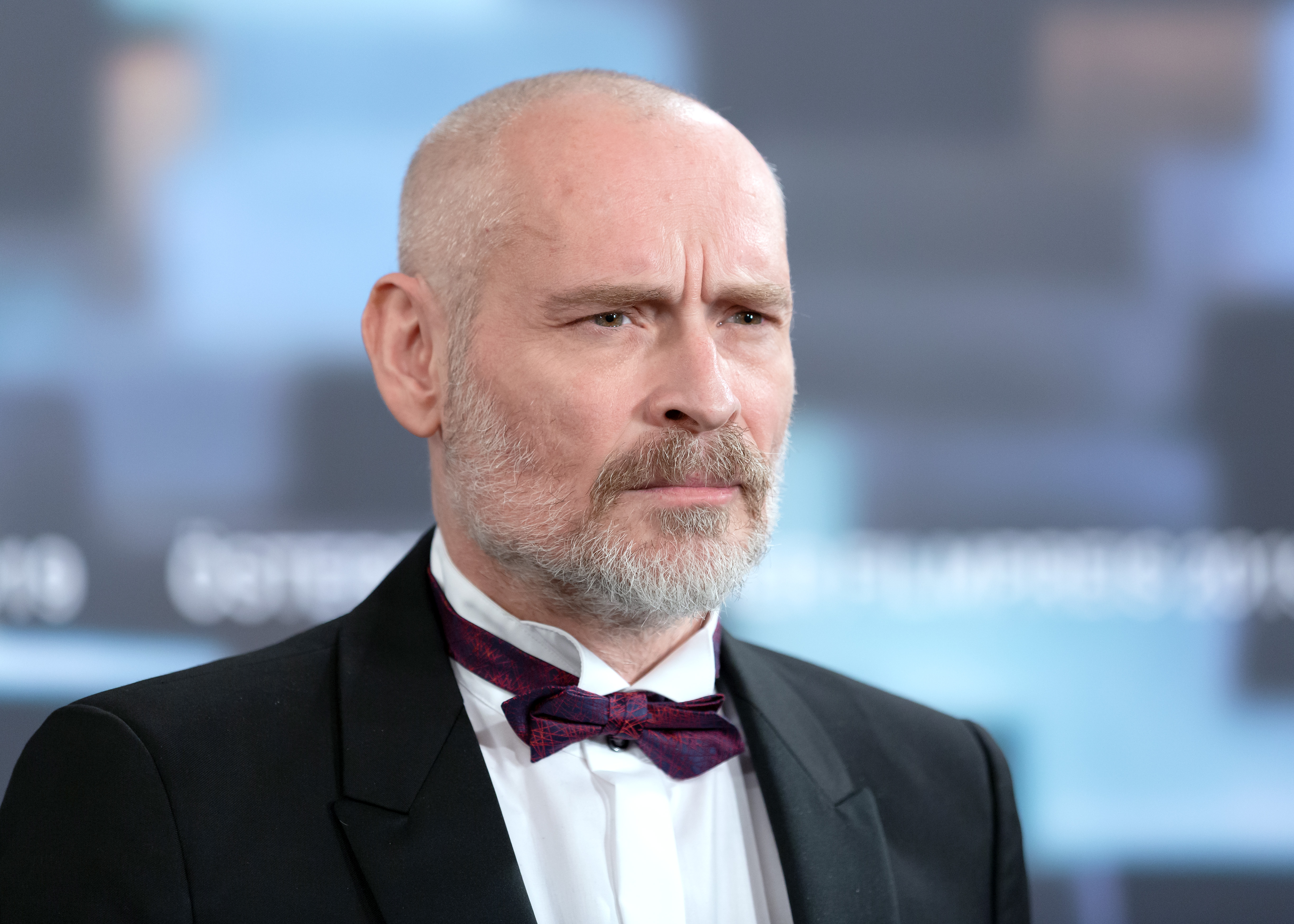 Johannes Krisch ("Der Trafikant"), photo call at the Austrian Film Awards 2019 (Rathaus, Vienna,Austria).